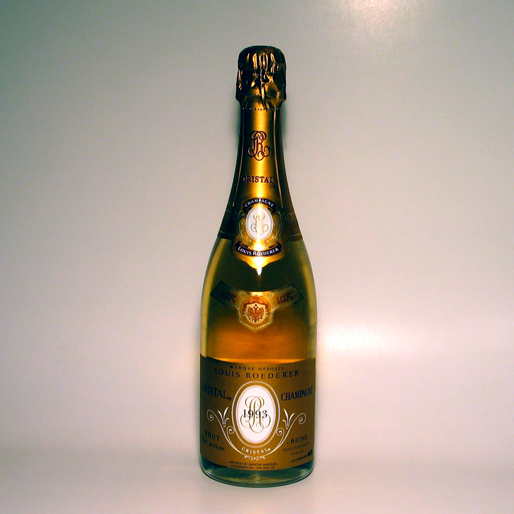 A bottle of Louis Roederer Cristal Champagne (1993).